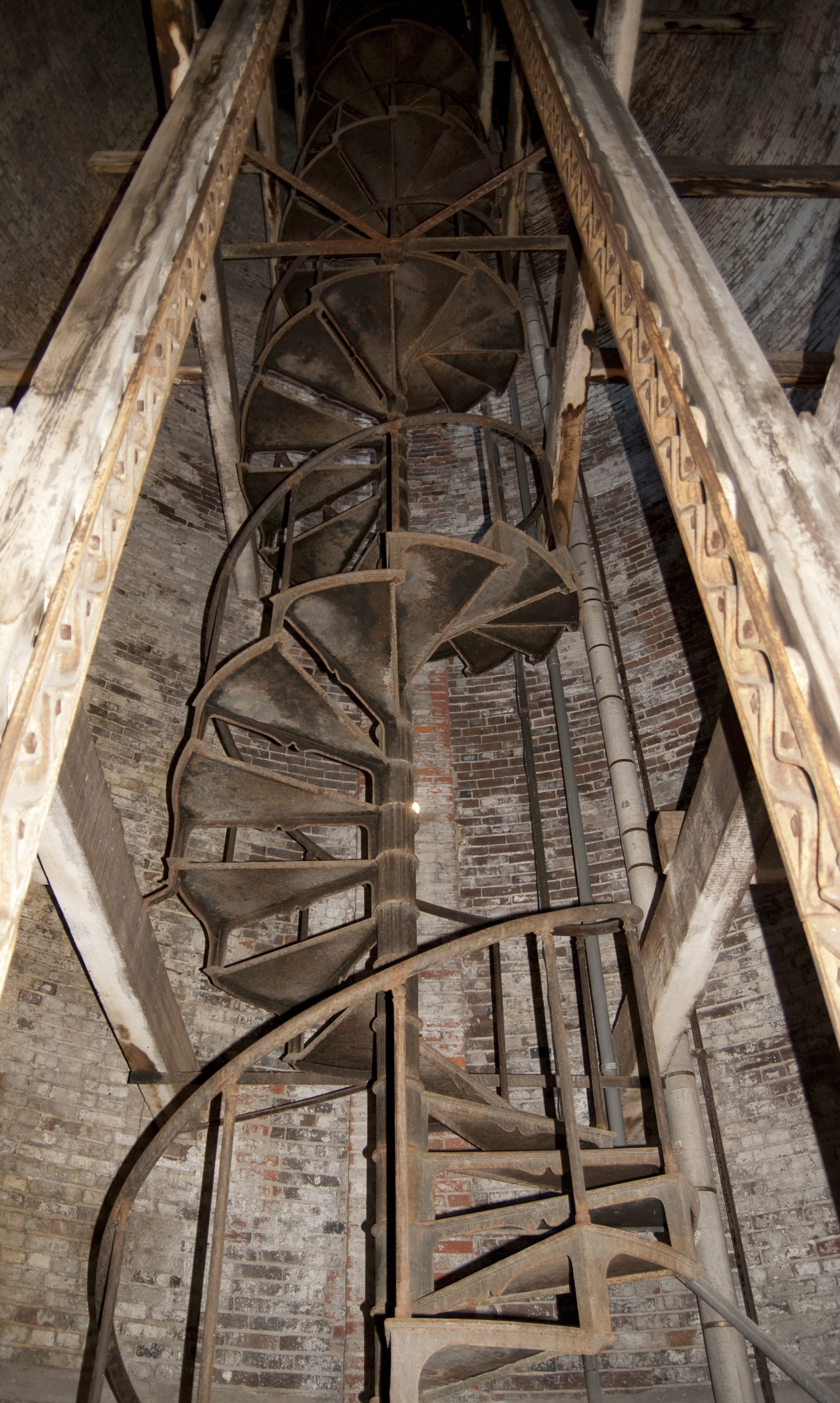 Photo courtesy of James Singewald.